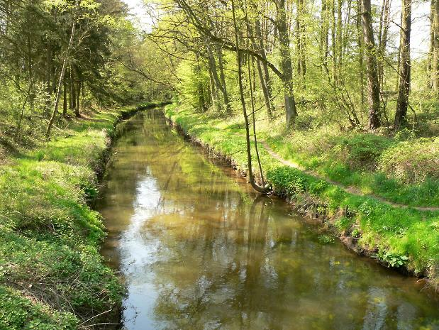 The Aller Canal in the Barnbruch woods near Gifhorn, Lower Saxony, Germany